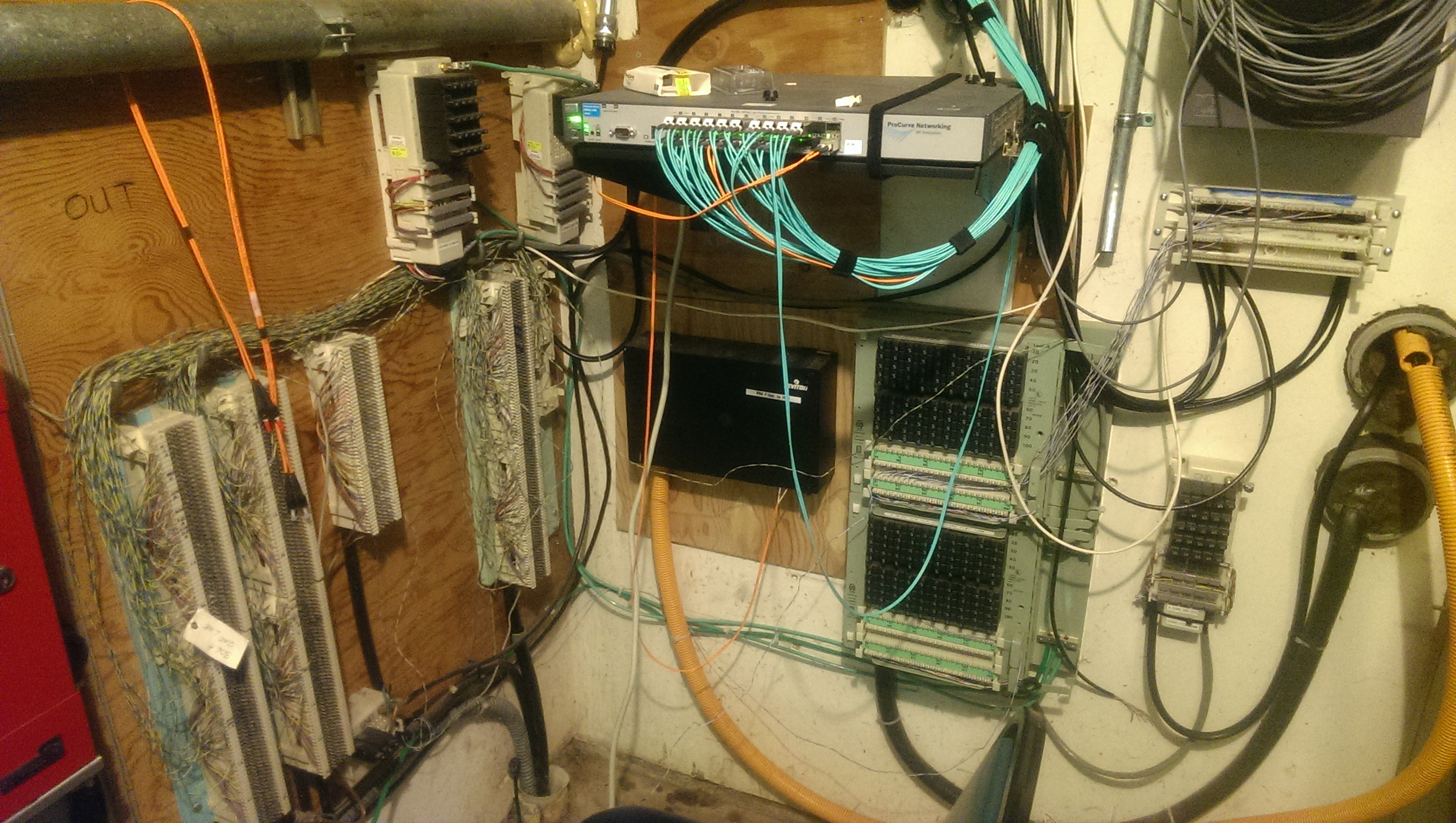 This image depicts the inside of a wiring closet. Visible are several telecommunications punch blocks and an optical fiber switch.